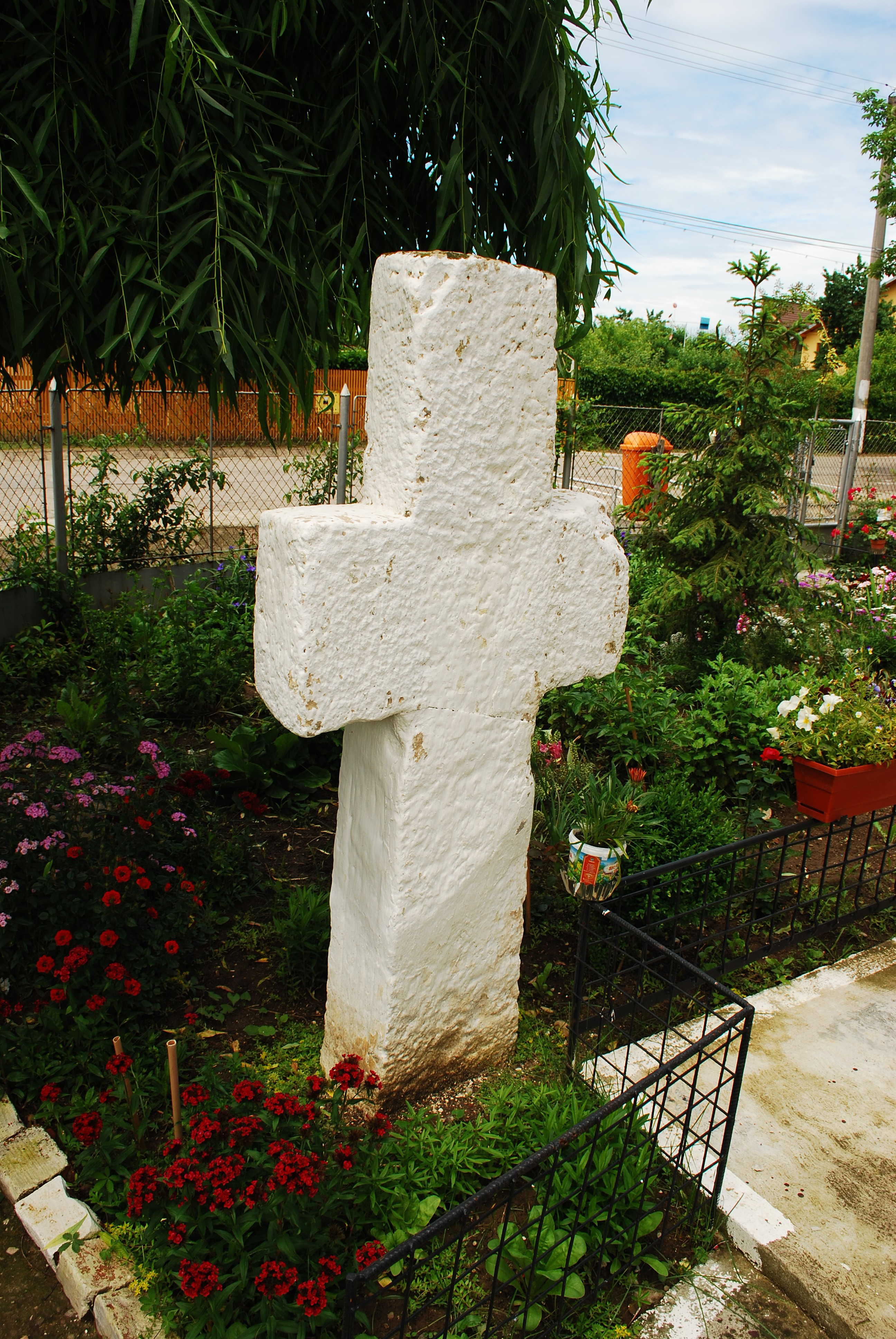 Stone cross in the yard of the church of the Dormition in Boldești-Scăeni, Prahova County, Romania